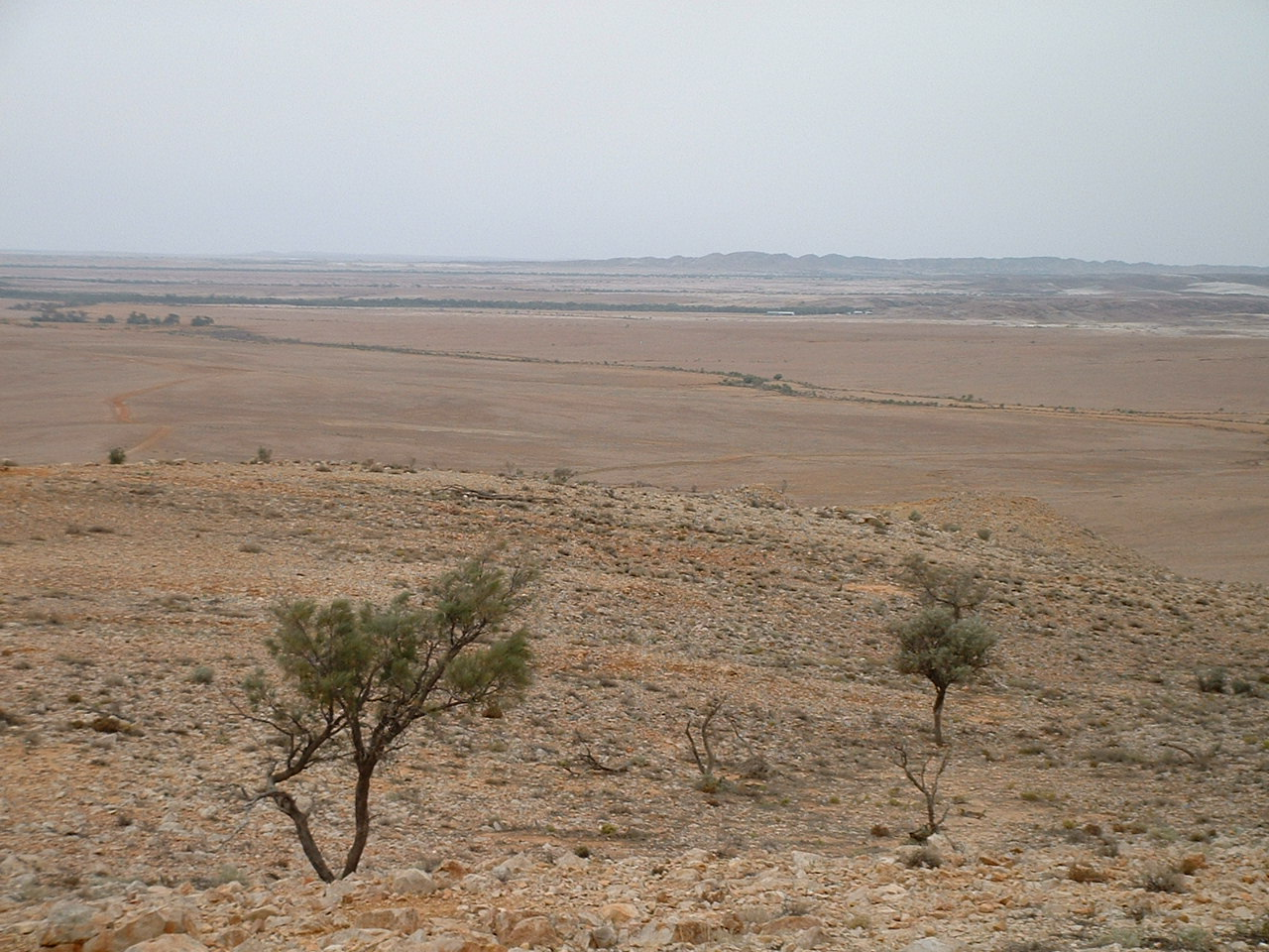 View from the summit of Mount Poole, New South Wales. Preservation Creek can be seen in the distance. Charles Sturt's campsite at Depot Glen is located behind the farm buildings near the creek